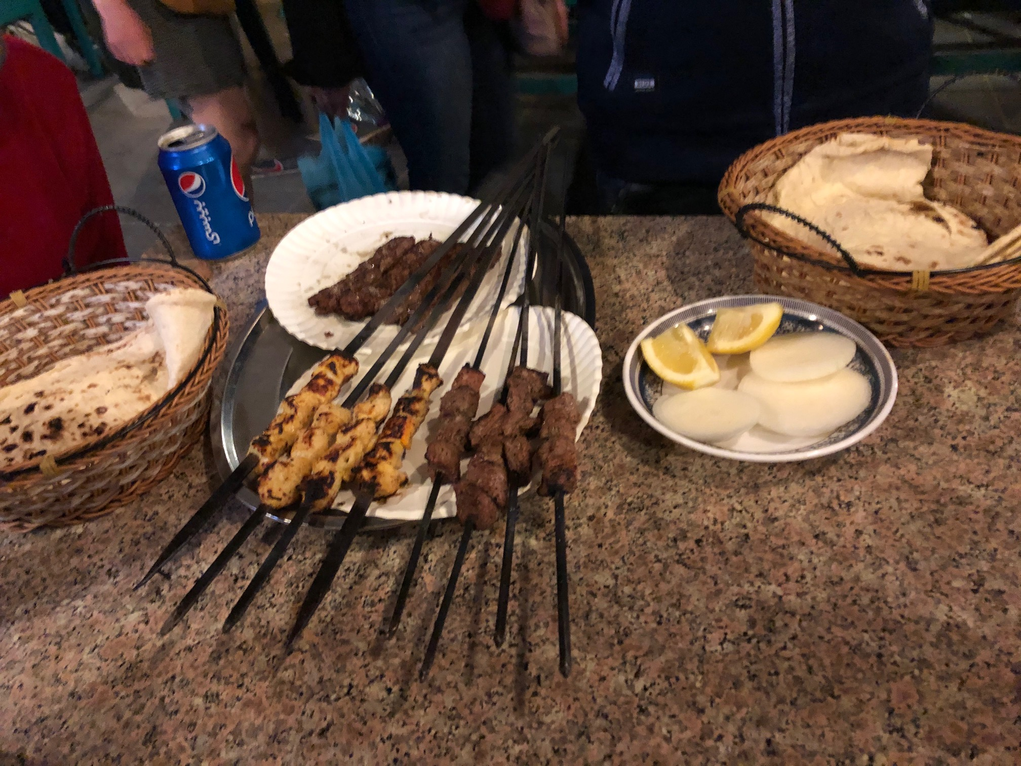 Doha - food